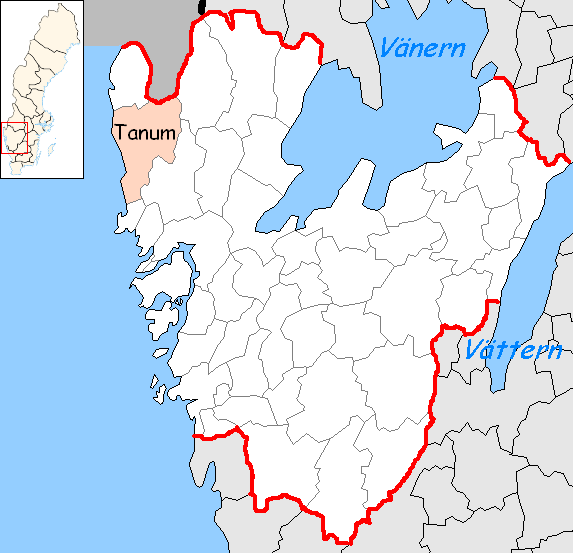 Tanum Municipality in Västra Götaland County Designed by me. Mere outlines are a PD source from